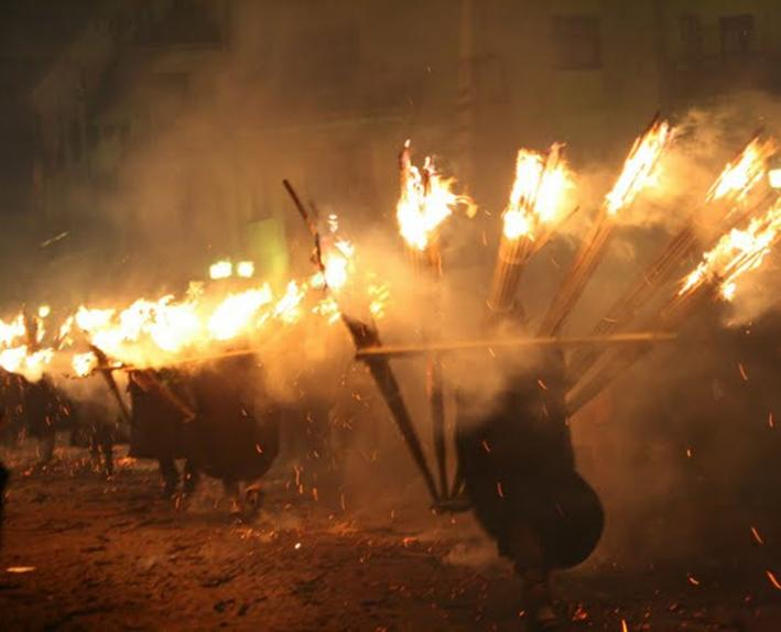 'Ndocciata torchlite parade in Agnone (Isernia) Italy 2006